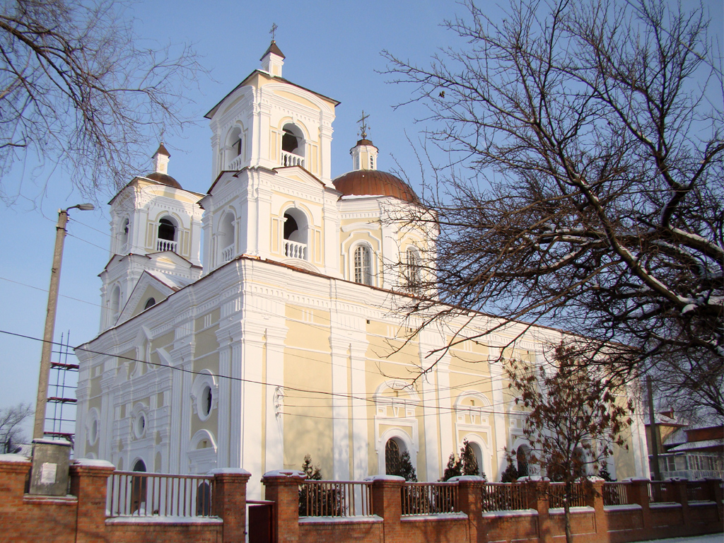 Church of Our Lady of the Assumption, is a Catholic church located in Astrakhan in southern Russia.